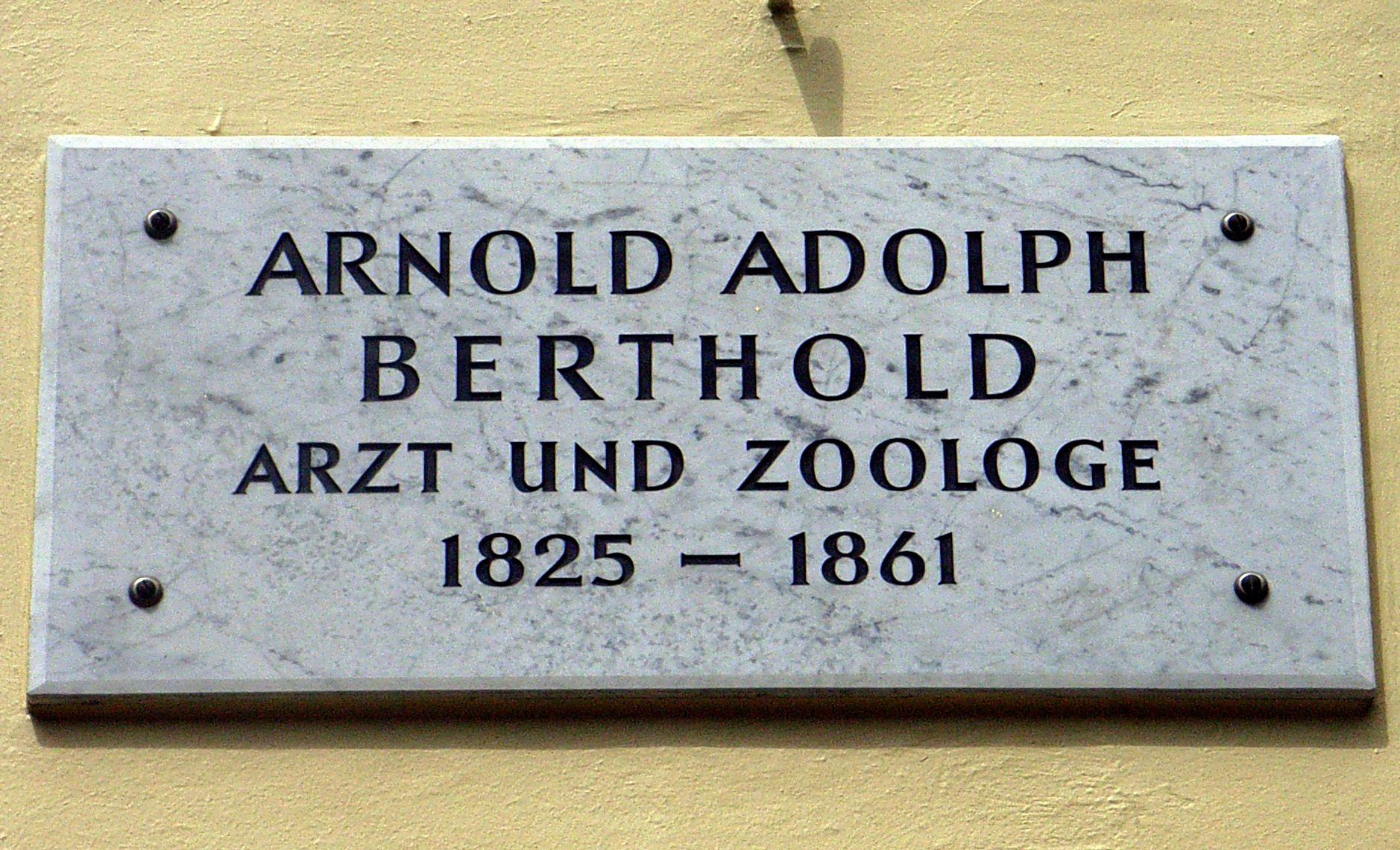 This image shows a informationsign in Göttigen.